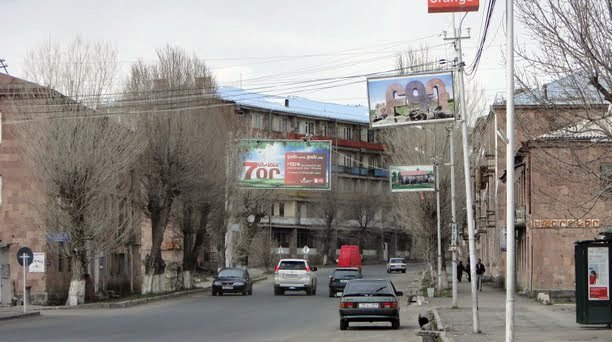 In central part of the city